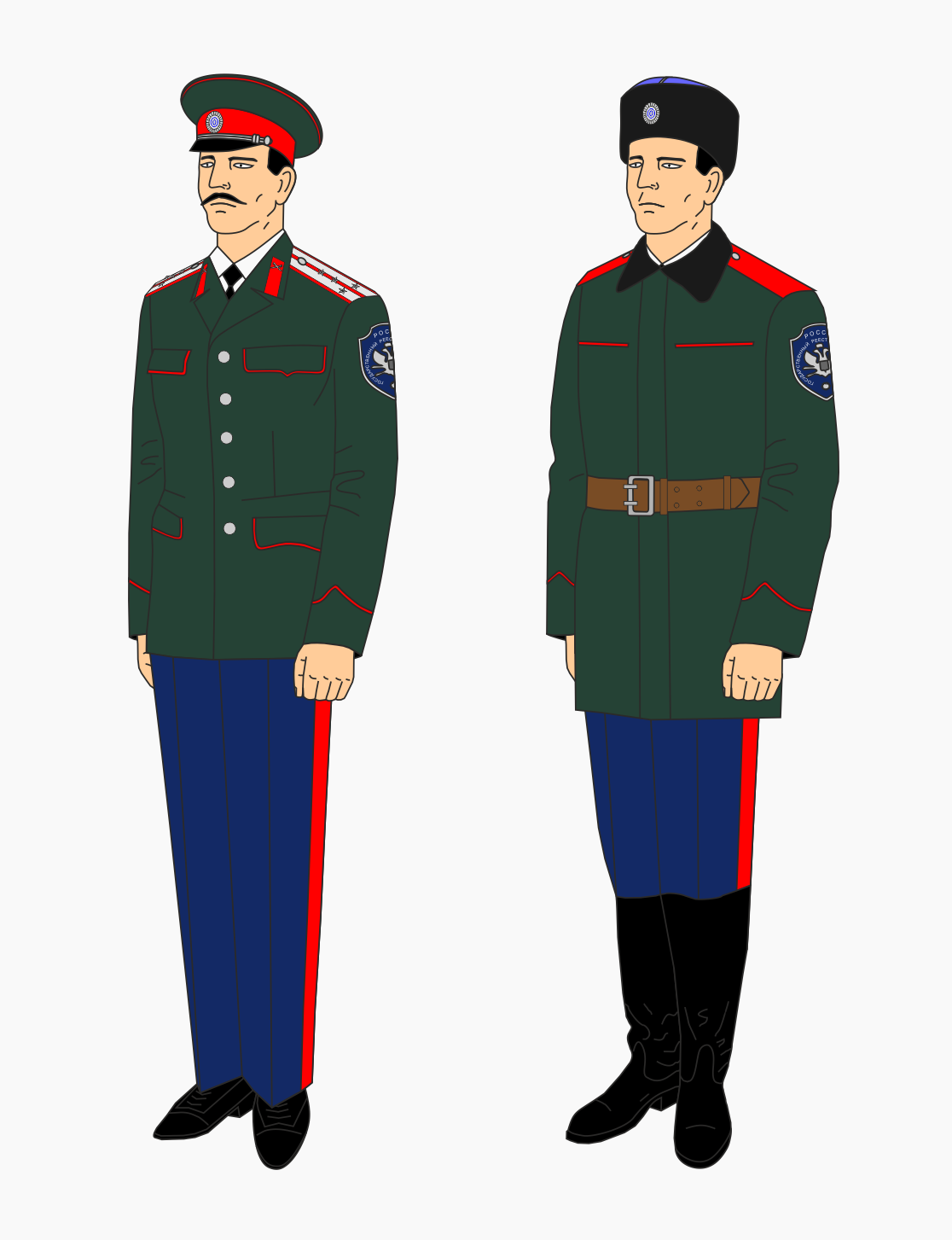 Сибирское казачье войско (повседневная форма казаков)